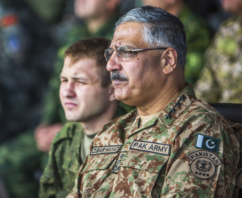 Zubair Mehmood Hayat. Peaceful Mission 2018.